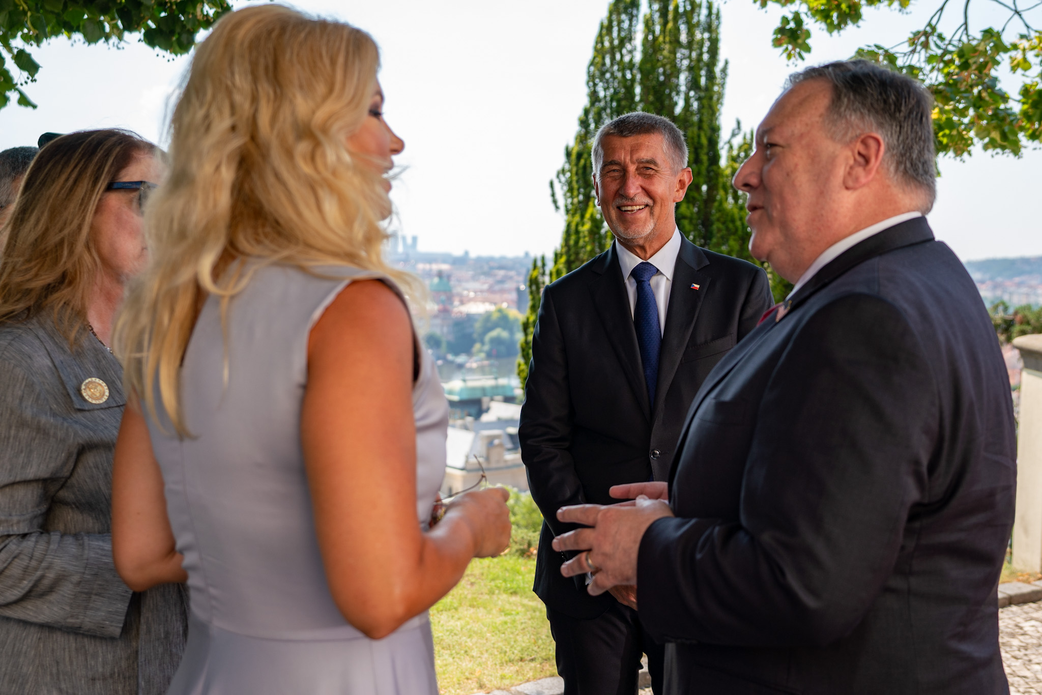 Secretary of State Michael R. Pompeo attends a working lunch with Czech Prime Minister Andrej Babis, in Prague, Czech Republic, on August 12, 2020. [State Department photo by Ron Przysucha/ Public Domain]